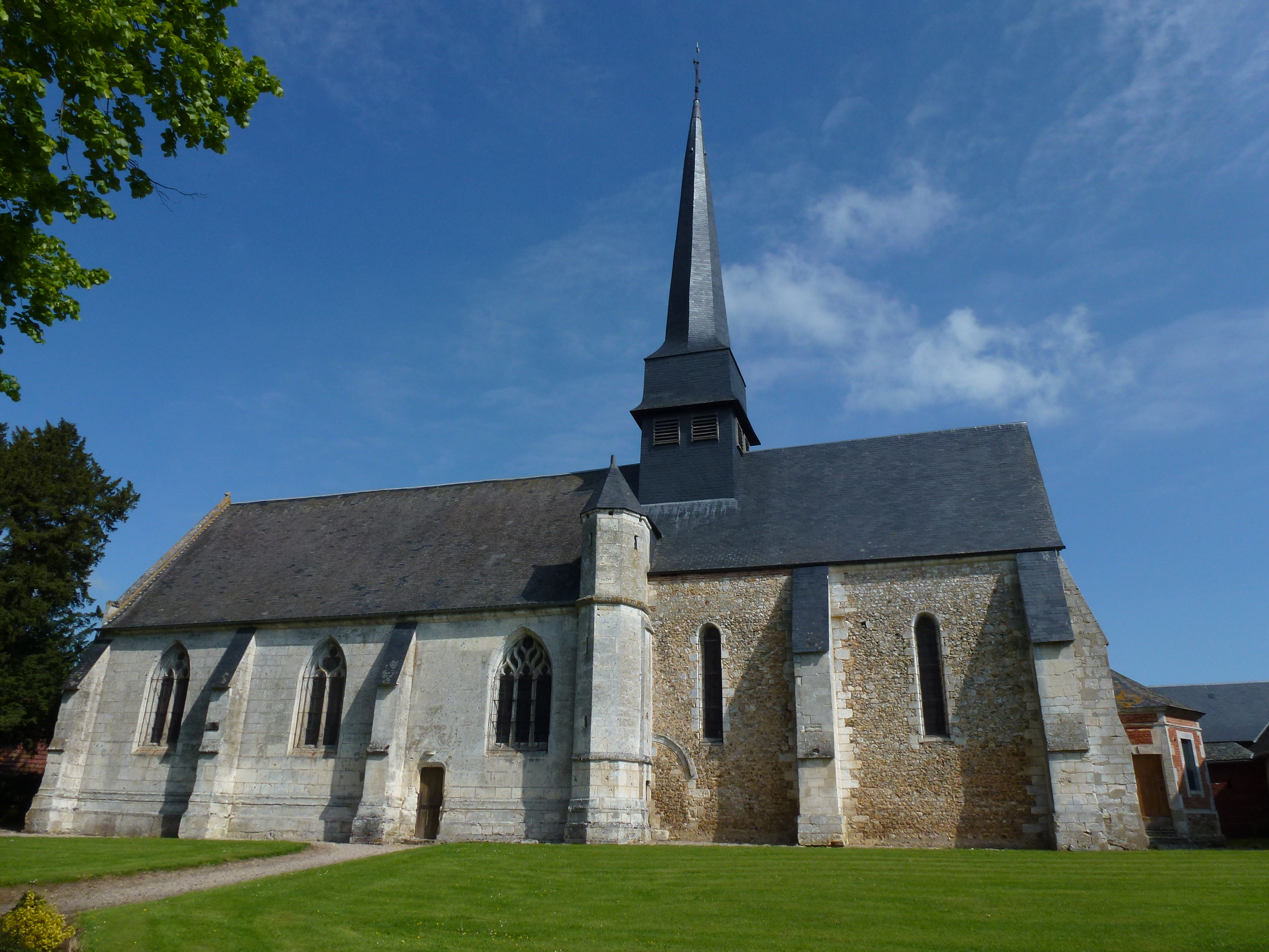 Saint-Éloi-de-Fourques (Eure, Fr) église